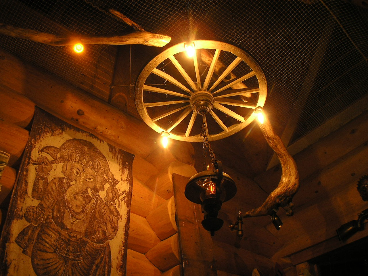 Electric wheel chandelier